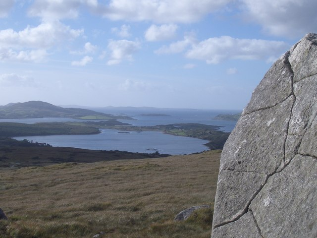 Standing Stone on Diamond Hill Walk, with view over Ballynakill Harbour